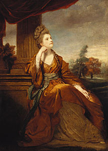 Portrait of Maria, Duchess of Gloucester and Edinburgh (1739-1807)